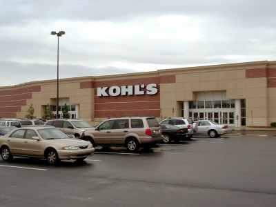 The exterior of a typical Kohl's department store in Northeast Columbia.